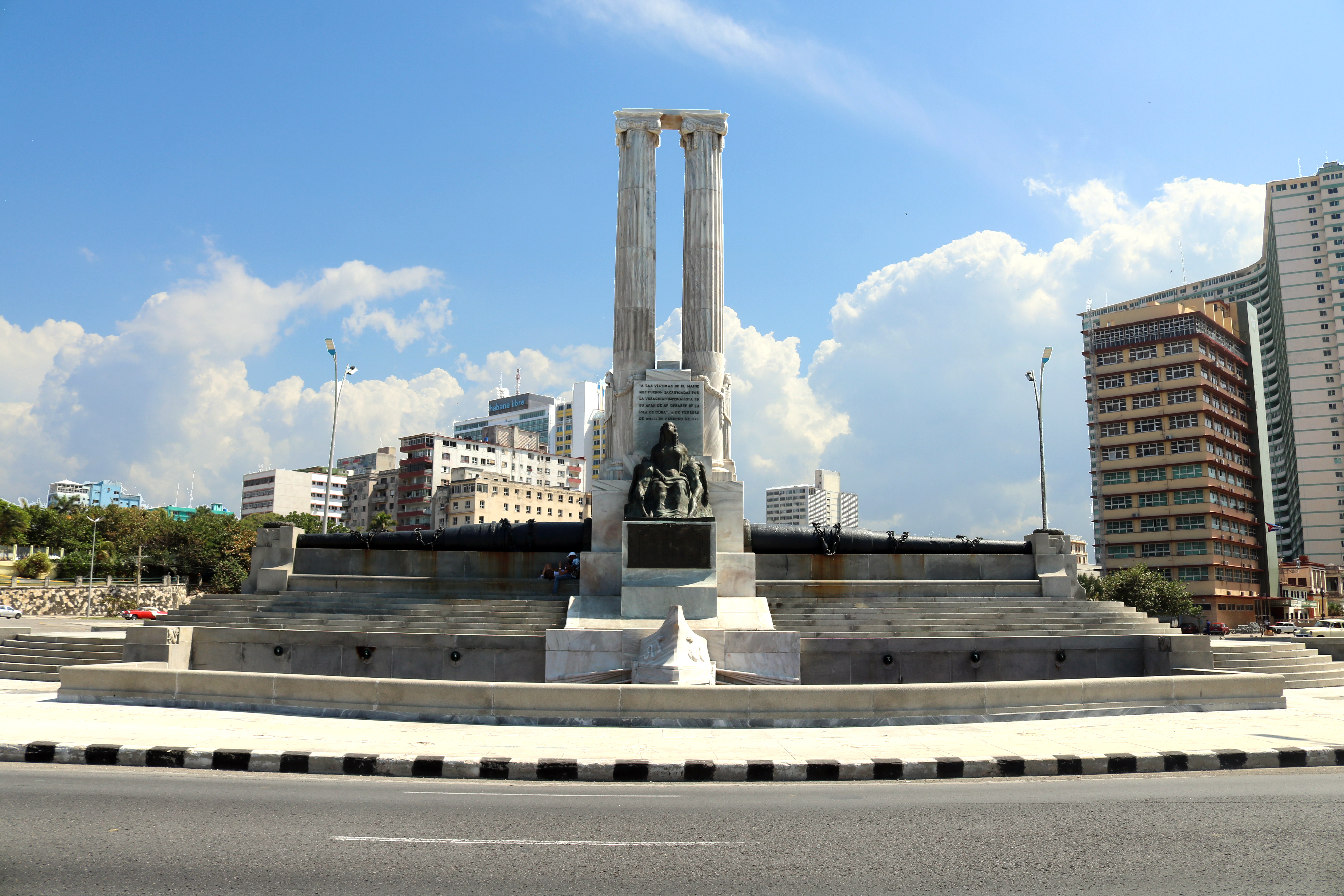 Monument USS Maine, in Havana, Cuba